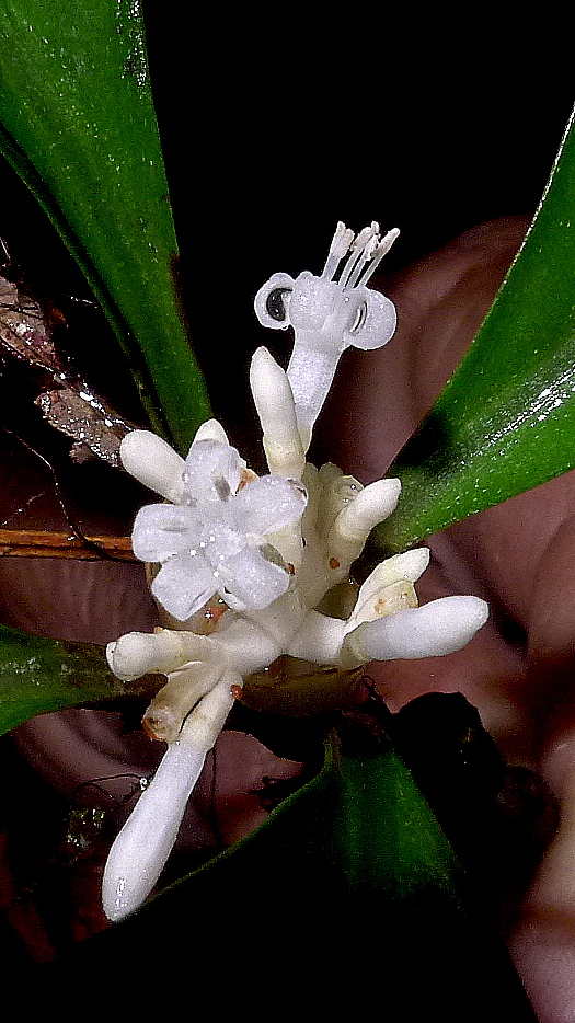 Psychotria cupularis (Müll. Arg.) Standl.